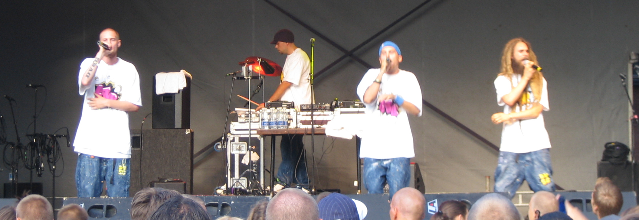 Swedish hip hop group Looptroop performing at Swea reggae festival 2006, Stockholm